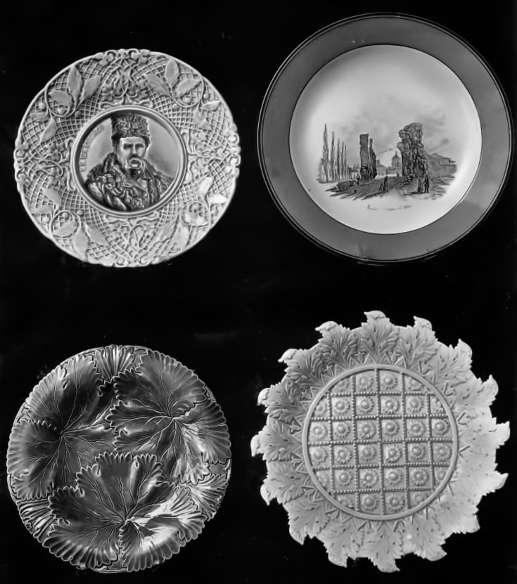 Examples of porcelain plates from the Mezhyhirya porcelain factory in Ukraine, 19 Century.